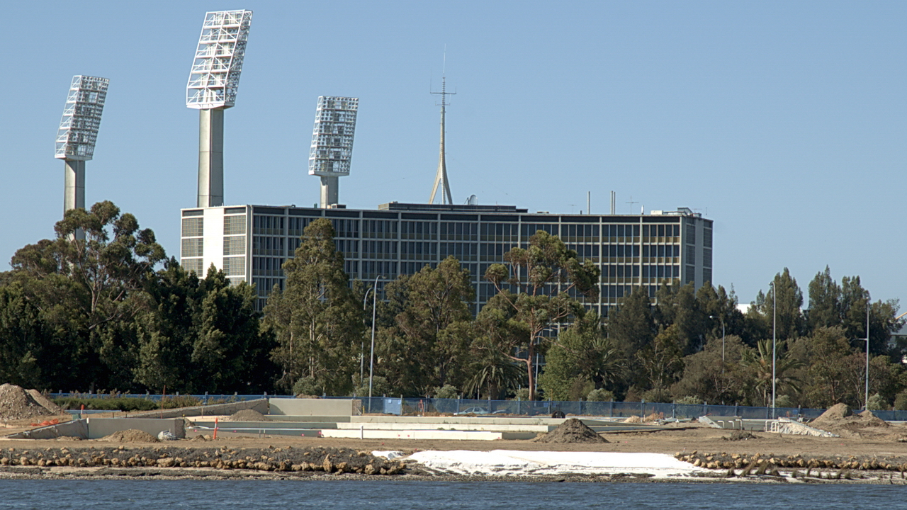 Western Australia Police Headquarters. East Perth Western Australia.